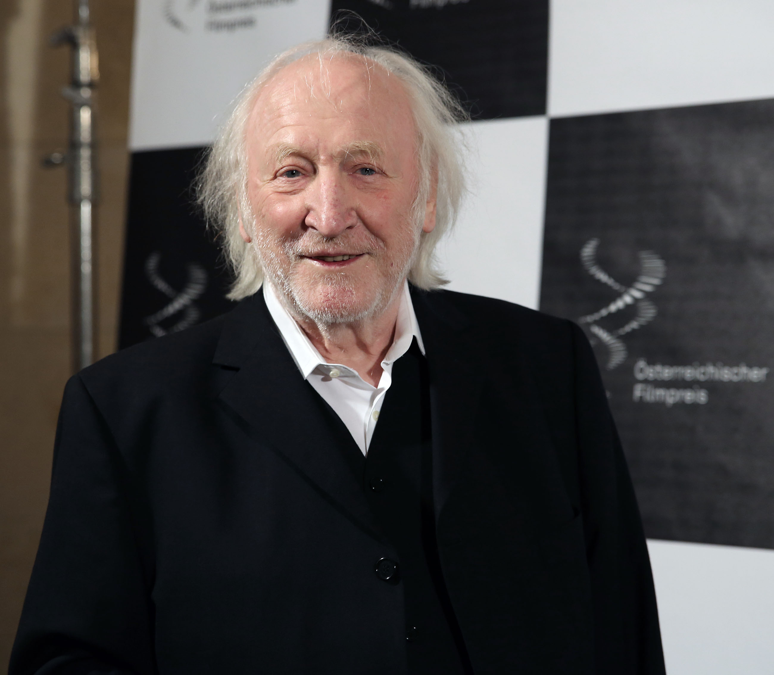 Karl Merkatz, Austrian Film Awards 2013 (Vienna).